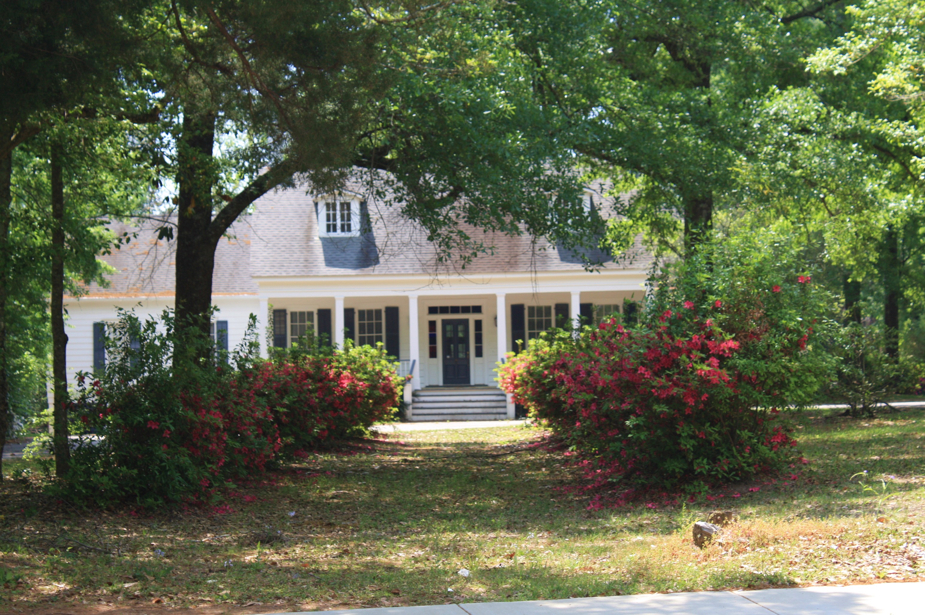 The Collins-Marston House in Mobile, Alabama, United States. Built in 1832. Individually listed on the National Register of Historic Places.